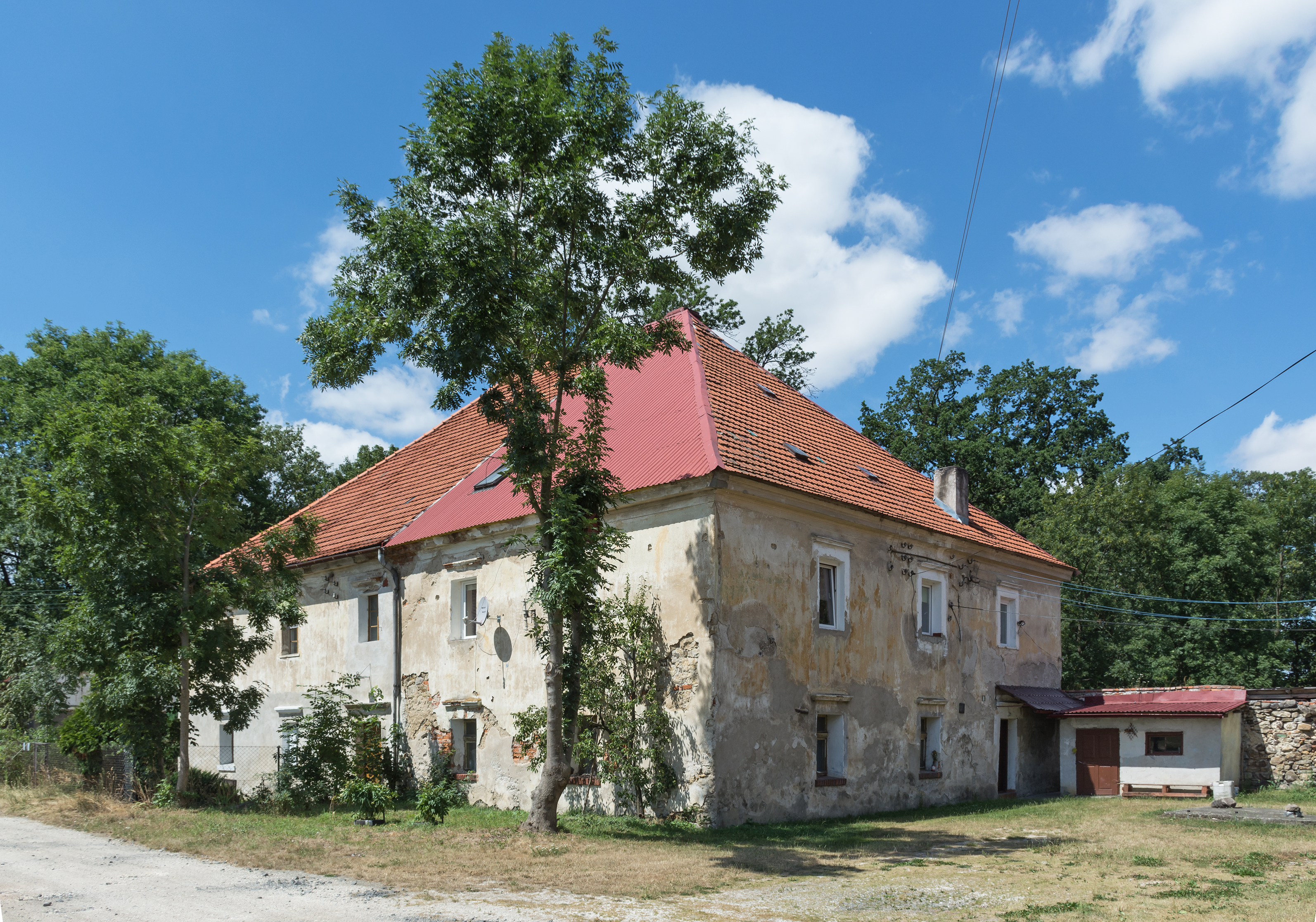 Muszyn Manor in Gorzanów